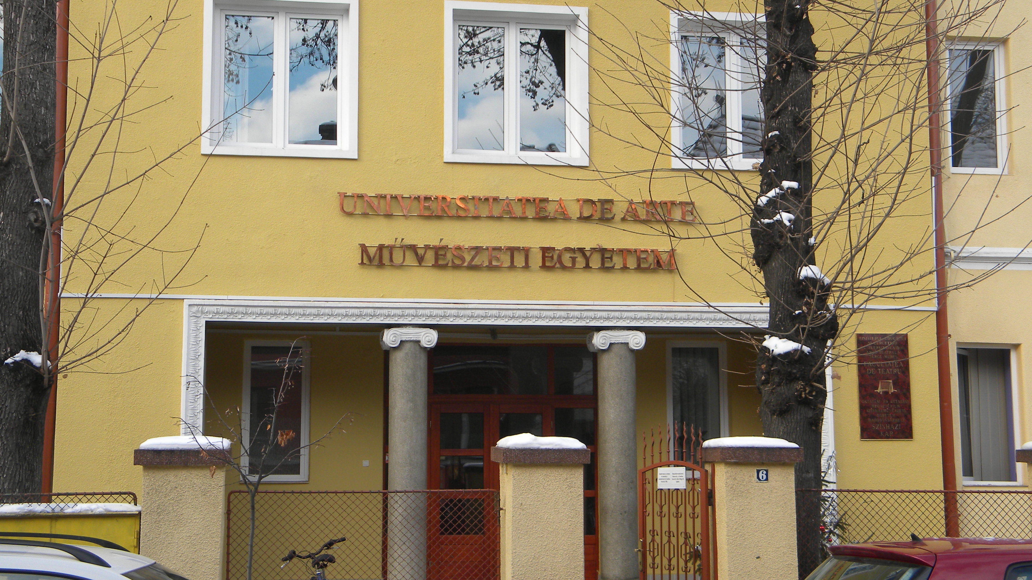 University of Arts, Marosvásárhely/Târgu Mureş/Neumarkt am Mieresch